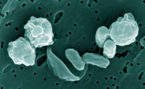 Colored micrograph of Bacillus odysseyi spores taken by a field-emission environmental SEM and magnified by 107. Spherical figures (about 2 µm diameter) are intact spores with exosporia. In center of image, spores (rod-shaped) were exposed to 0.5 mrad gamma radiation for 60 min, thus the exosporium (ribbon-shaped) separated.